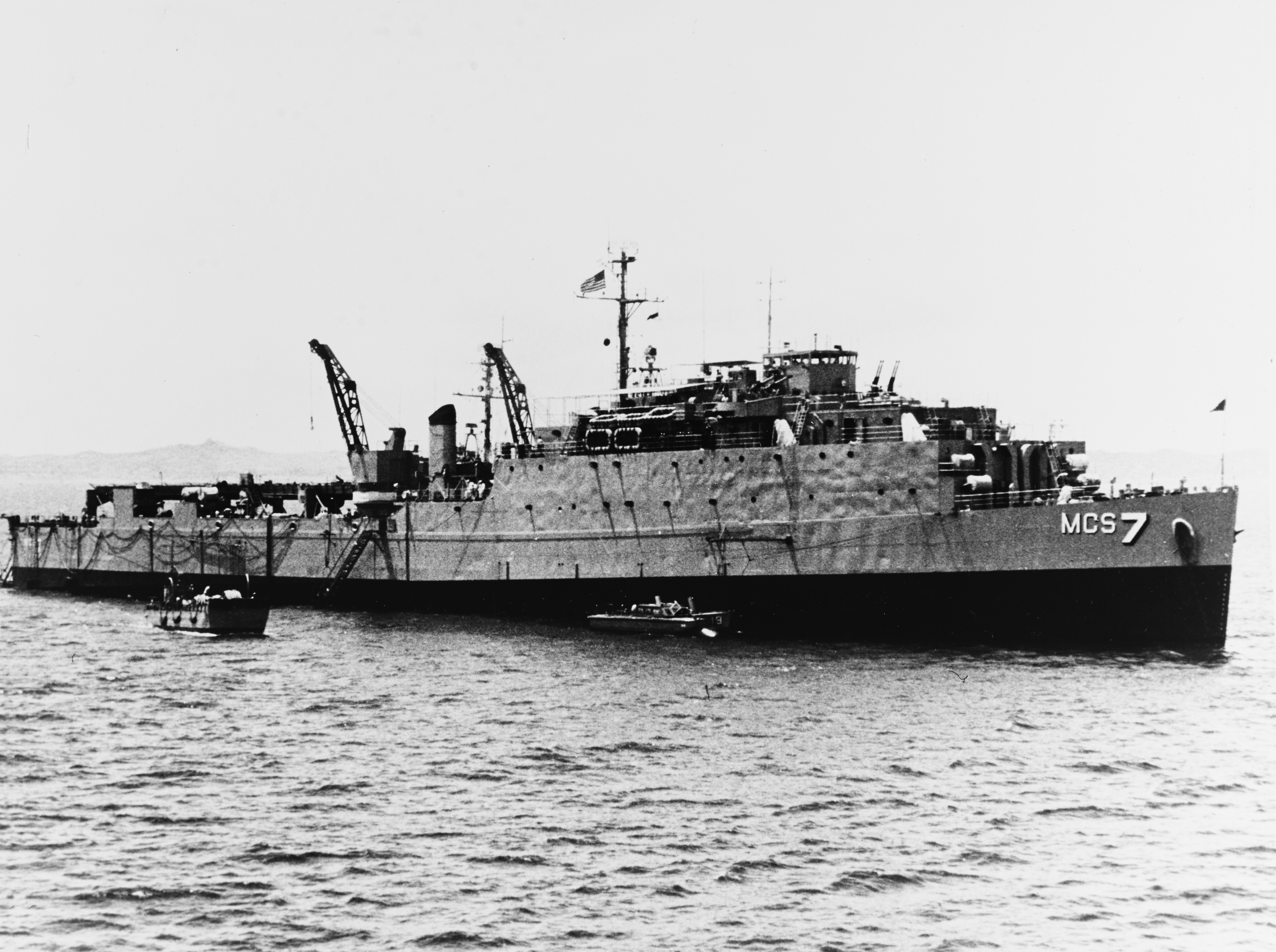 The U.S. Navy mine countermeasures support ship USS Epping Forest (MCS-7) at anchor with a landing craft in the water, circa the mid-1960s.